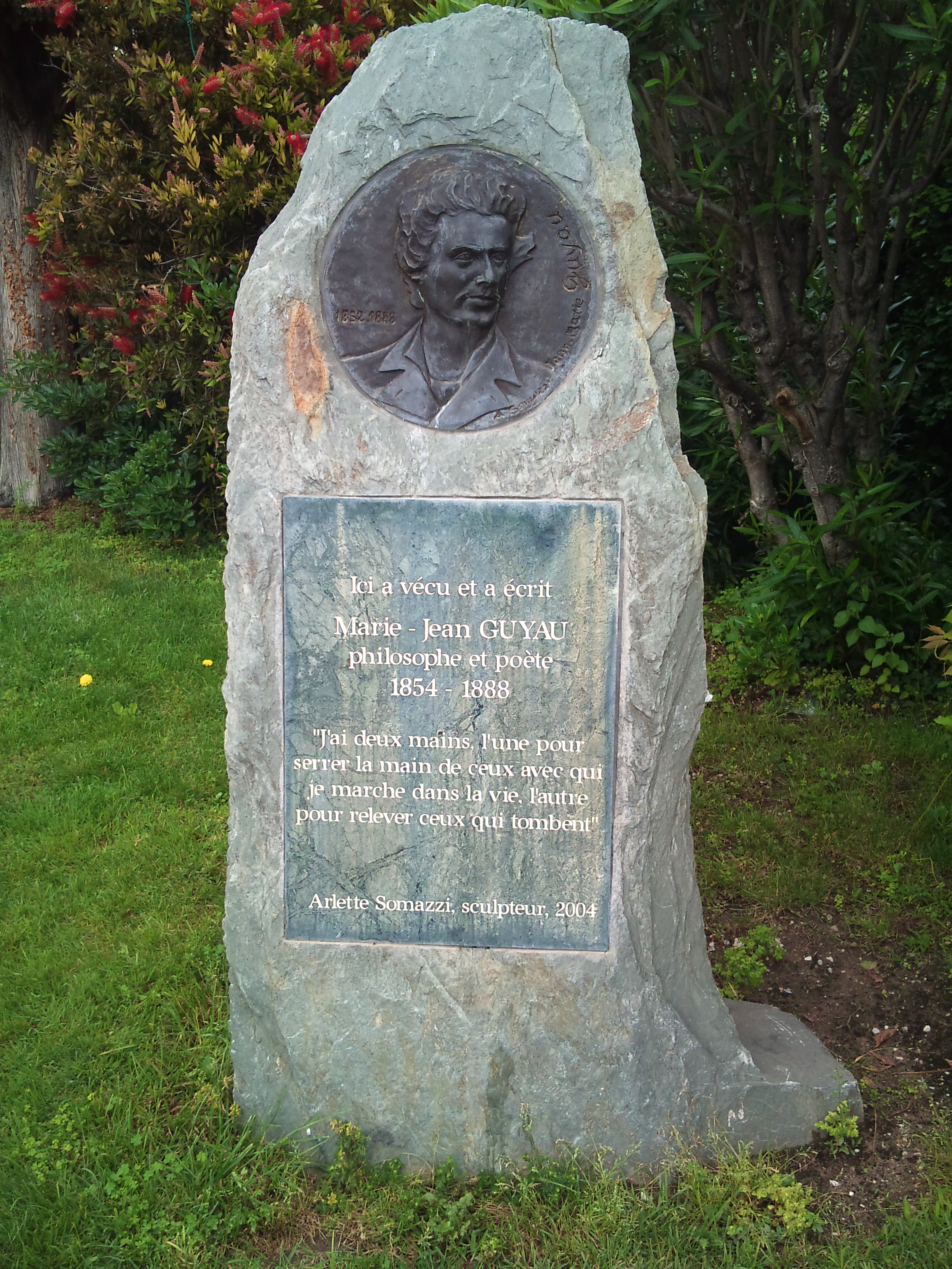 Guyau tribute in Menton